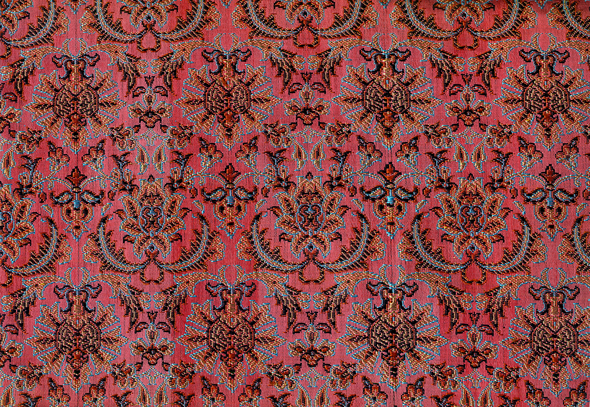 Persian Silk Brocade. Persian Textile (The Golden Yarns of Zari - Brocade). Silk Brocade with Golden Thread (Golabetoon). Texture Type: Lower Warp (Brocade Atlasi). Jacquard. Pattern and Design: Shah Abbasi Flower, With Main Repeating Motif. Brocade weaver: Master Seyyed Hossein Mozhgani. 1974 A.D. Brocade Designer (Pattern Designer): Master Mohammad Tarighi. 1974 A.D. Pahlavi Dynasty. the Ministry of Culture and Art . Honarhaye Ziba workshop.